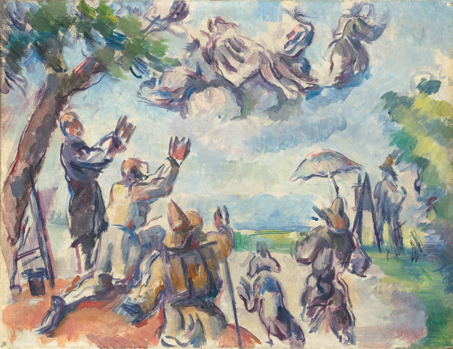 In this painting, Cézanne depicts Delacroix borne heavenward by angels, one of whom carries the artist’s palette and brush.